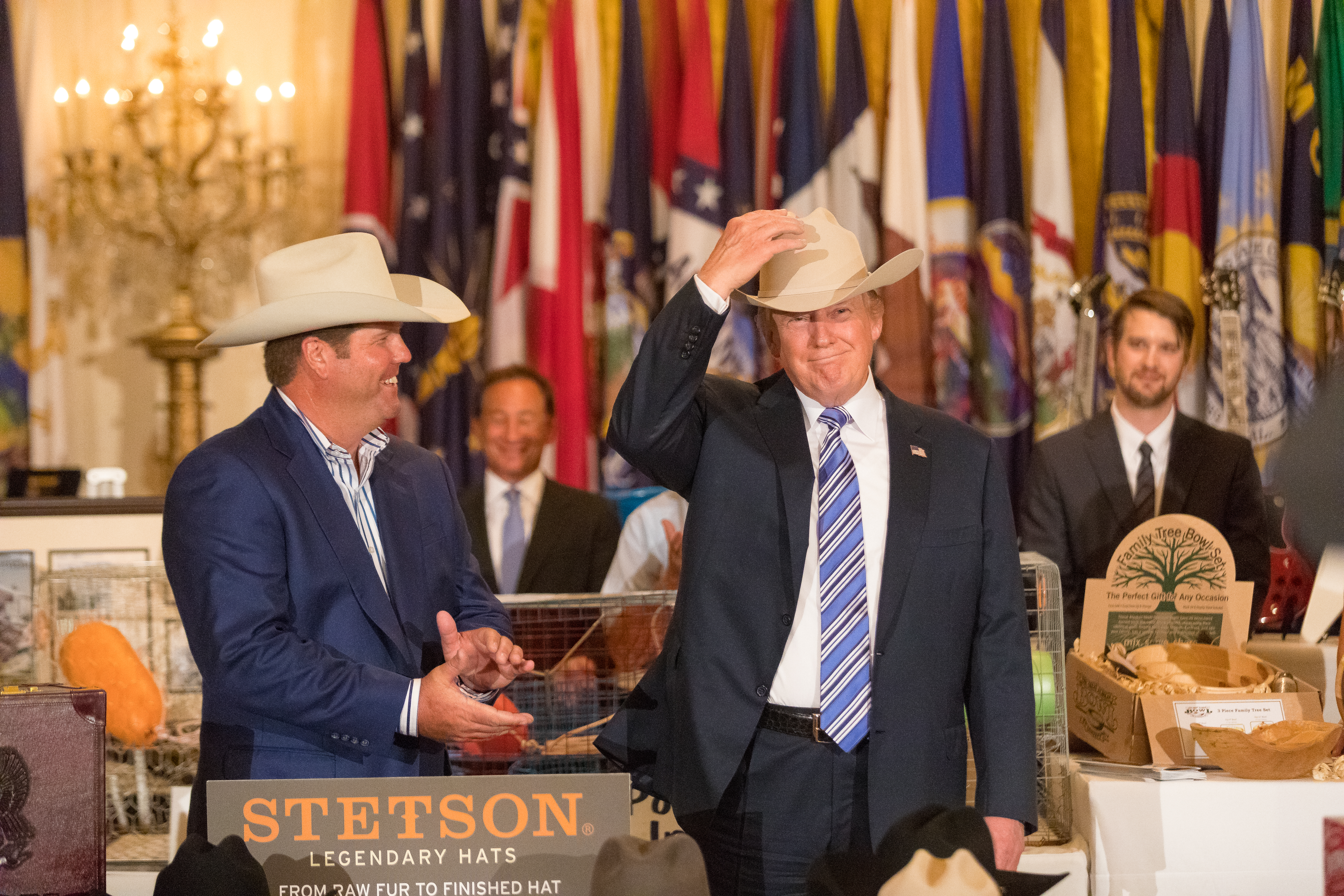 Washington, DC – Official Department of Labor Photograph*** Photographs taken by the federal government are generally part of the public domain and may be used, copied and distributed without permission. Unless otherwise noted, photos posted here may be used without the prior permission of the U.S. Department of Labor. Such materials, however, may not be used in a manner that imply any official affiliation with or endorsement of your company, website or publication. Photo Credit: Department of Labor Shawn T Moore